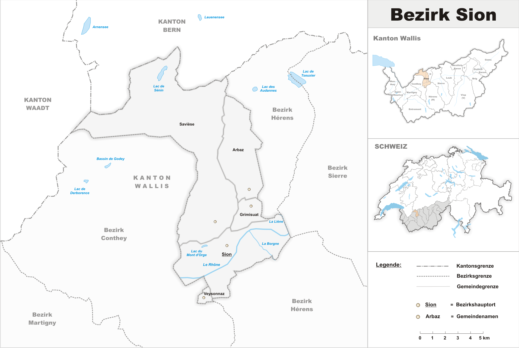 Municipalities in the district of Sion